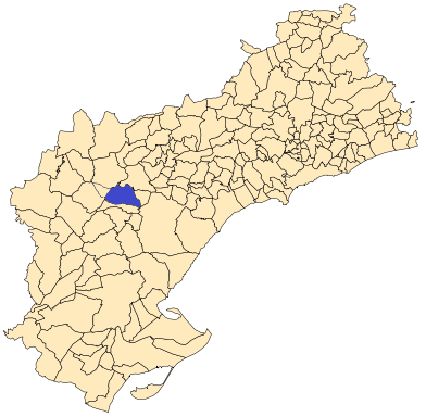 Móra d'Ebre